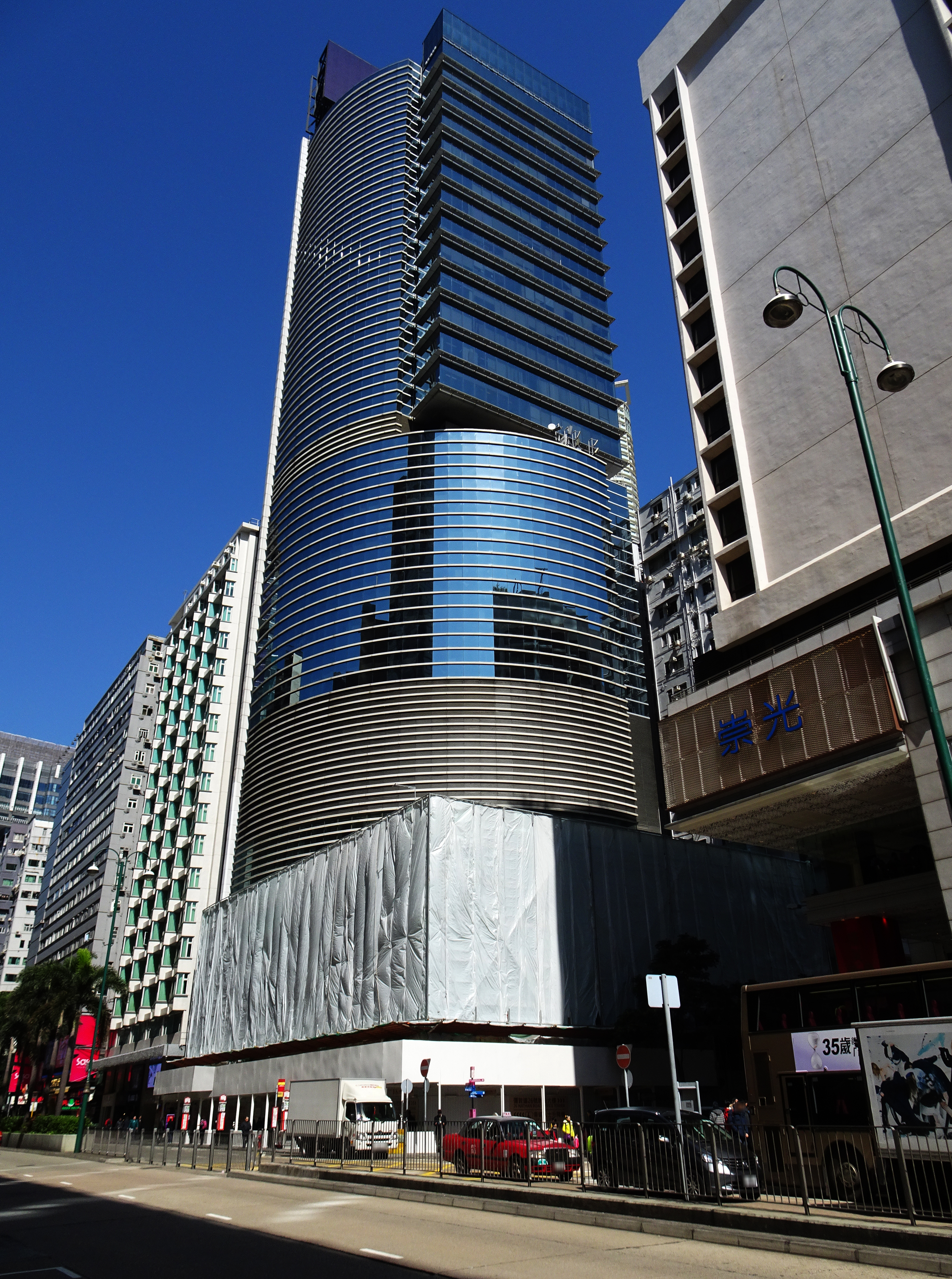 26 Nathan Road in Tsim Sha Tsui, Hong Kong.